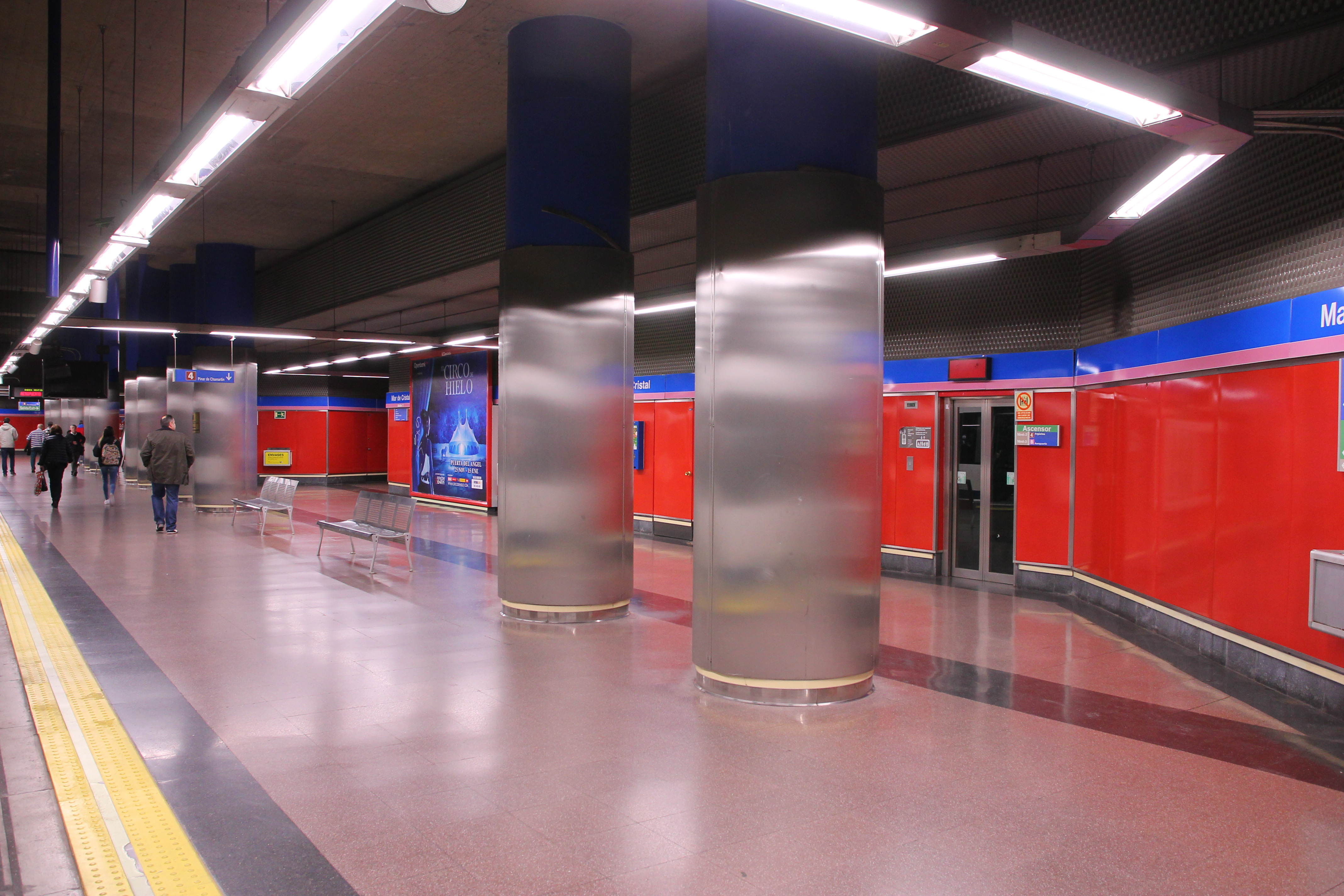 Mar de Cristal station. Madrid Metro.